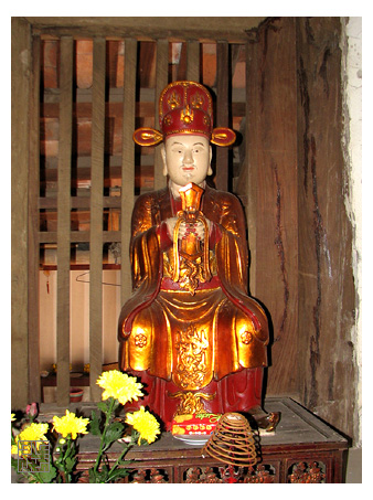 Ly Thai To King statue in Kien So pagoda, Gia Lam, Ha Noi, Vietnam